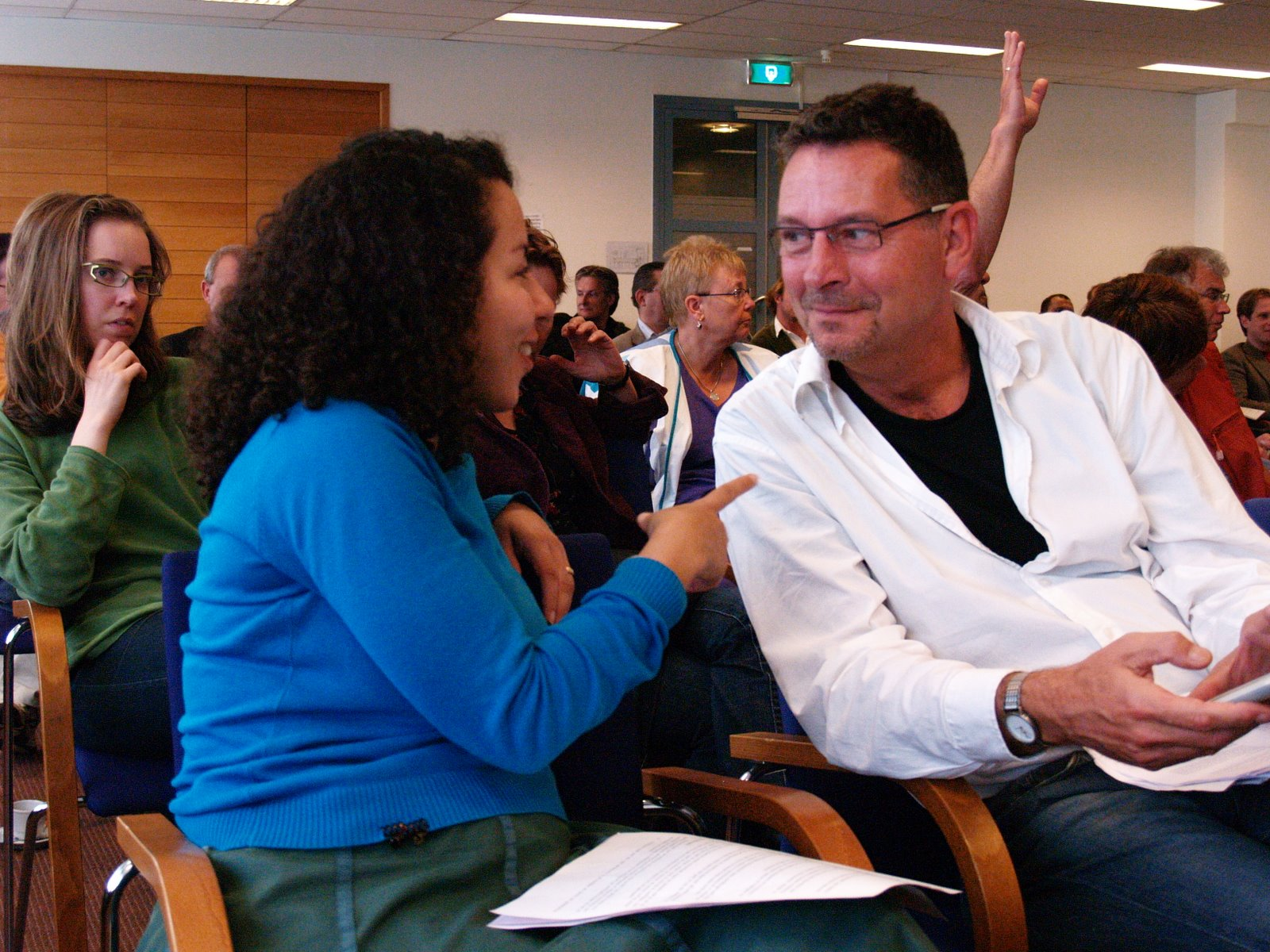 MP Naima Azough and Amsterdam submunicipal councilor Matthieu Heemelaar